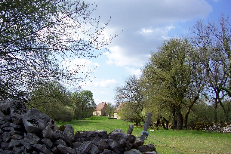 View of the Causse near place le Mousquié in town Sonac in Lot department in France.